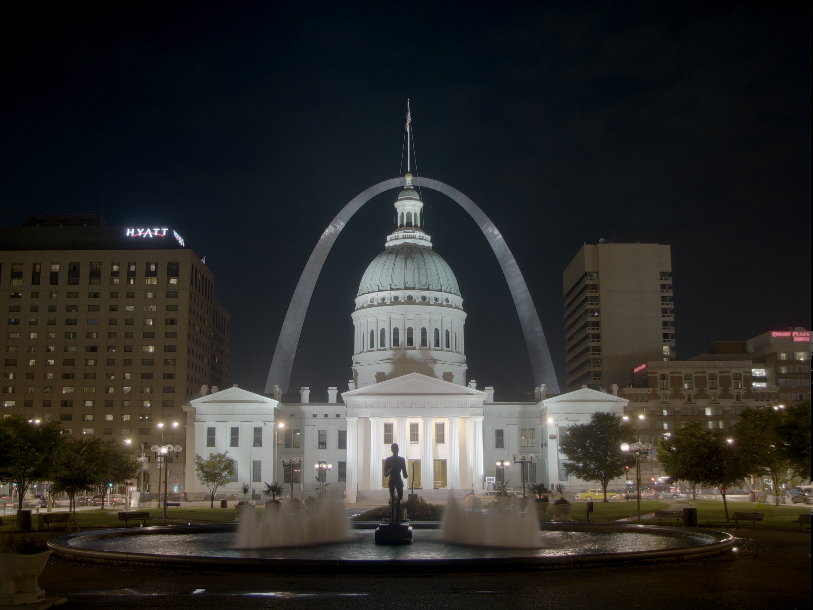 The Runner (1966) by William Zorach, Kiener Plaza, The Jefferson National Expansion Memorial, including the Gateway Arch and Old Courthouse, in St Louis, MO, USA. The plaza is named for Harry J. Kiener, a member of the U.S. track team at the 1904 Olympic Games, held in St. Louis. HDR built from four exposures, then simply contrast reduced to LDR without local tone mapping. Tutorial.